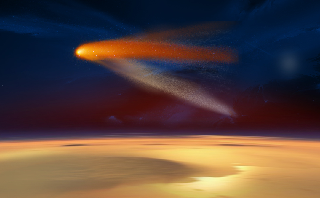 09.04.2014 Artist's concept of comet C/2013 A1 Siding Spring. On Oct. 19, the comet will have a very close pass at Mars, just 82,000 miles (132,000 kilometers) from the planet.